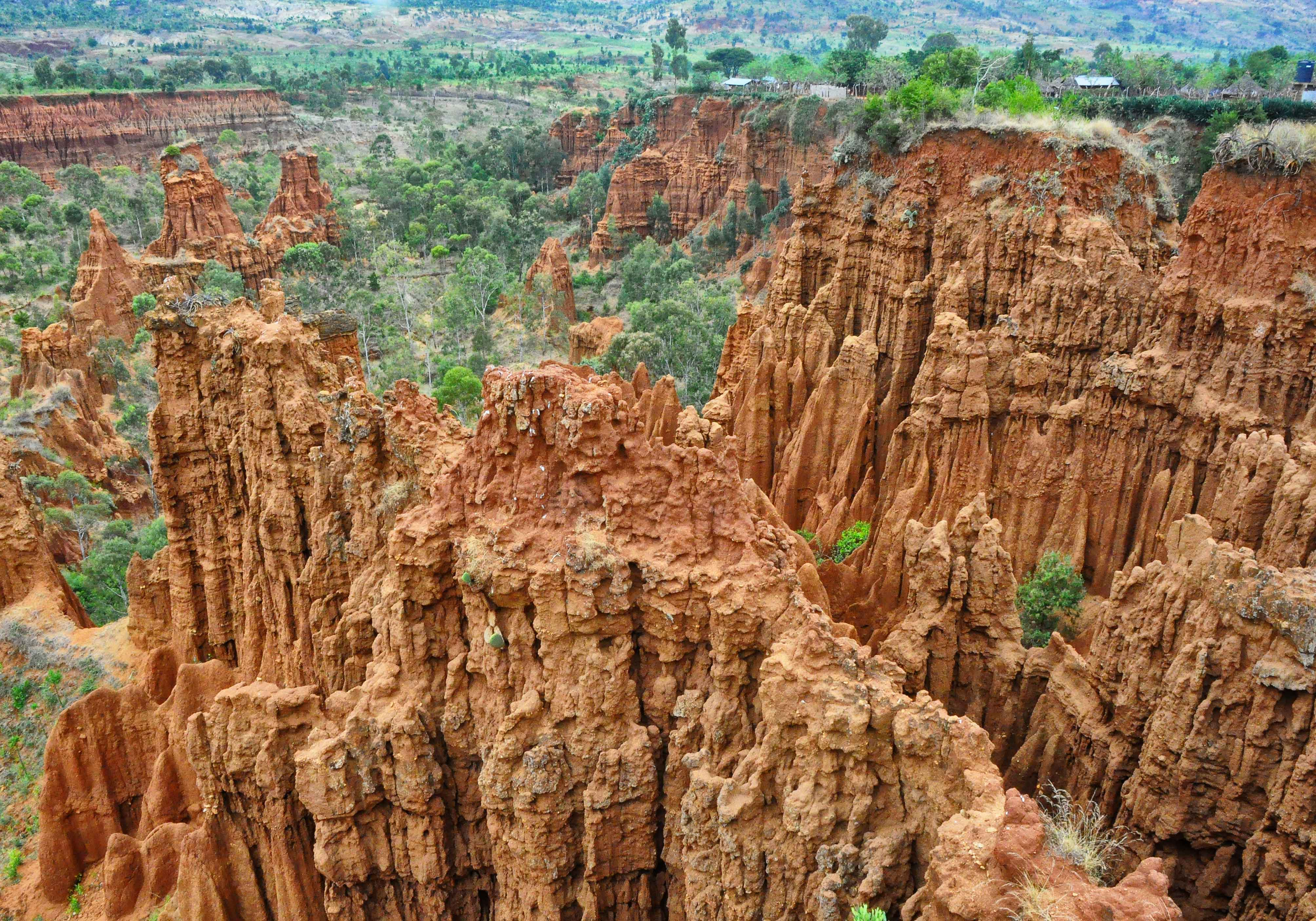 The Konso call it by this name.